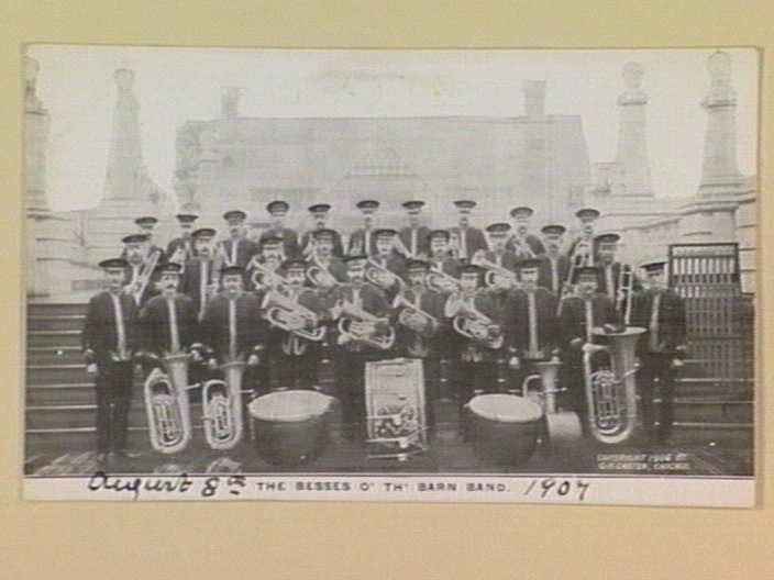 Besses o' th' Barn Band, circa 1906